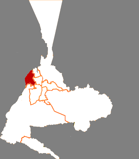 Location of Toutunhe District in Urumqi City, China